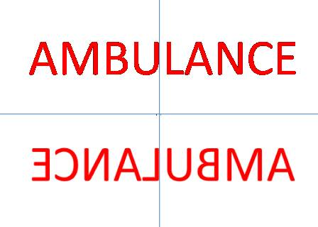 Mirror image "AMBULANCE" / "ECNALUBMA"